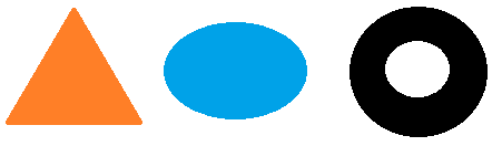 An example of the shapes used in Ann Treisman's experiment